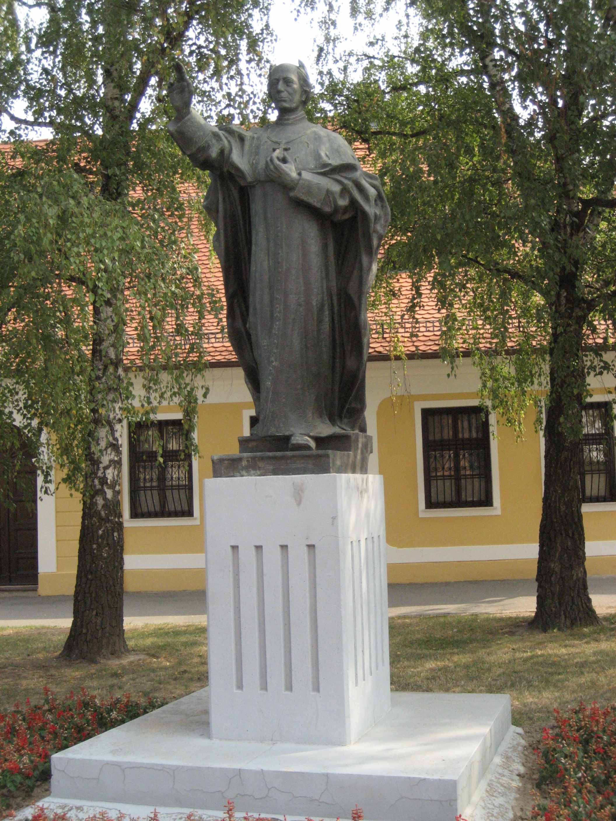 Strossmajer,_Dakovo